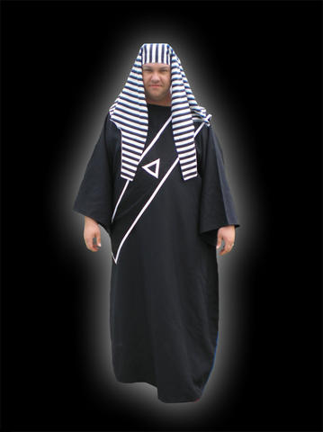 Initiate in Golden Dawn style Tau Robe, Neophyte grade sash, and Nymess, (Egyptian style headdress.)